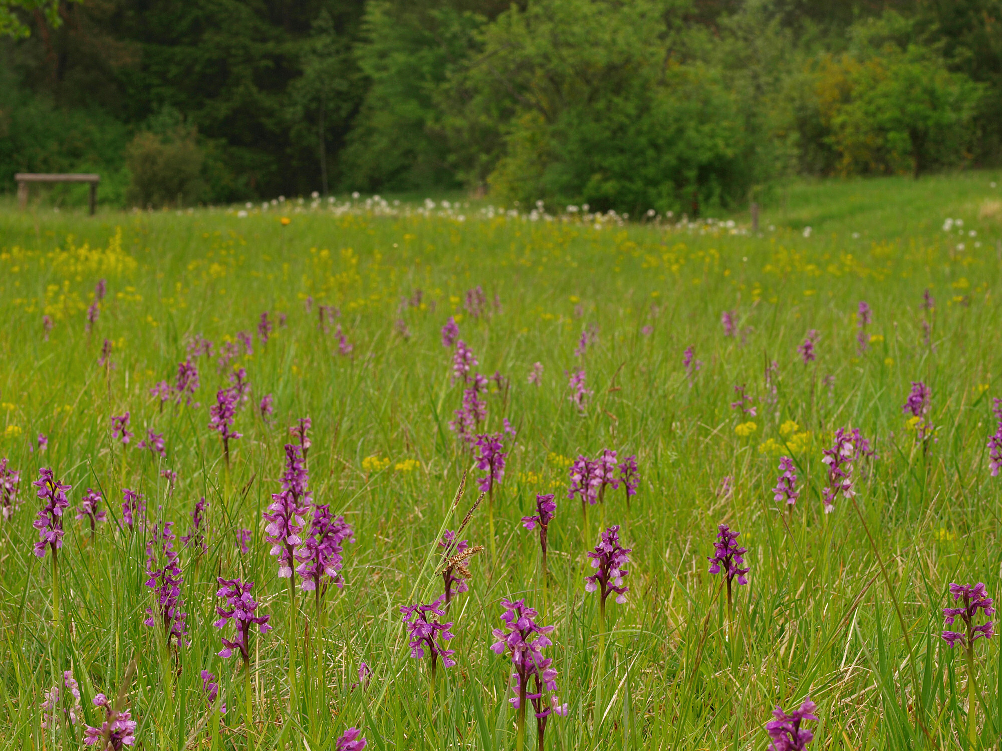 Königsbrunner Heide in May with Orchis morio